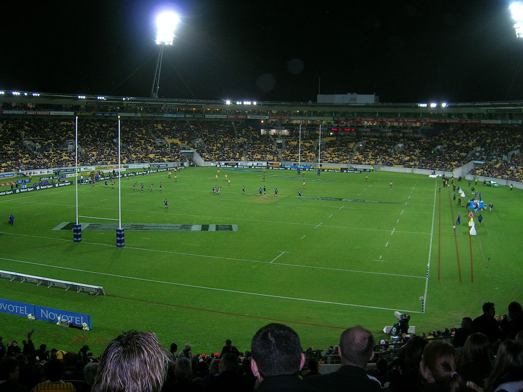 Highlanders versus Hurricanes at the Westpac Stadium in Wellington (New Zealand) in the Super 12